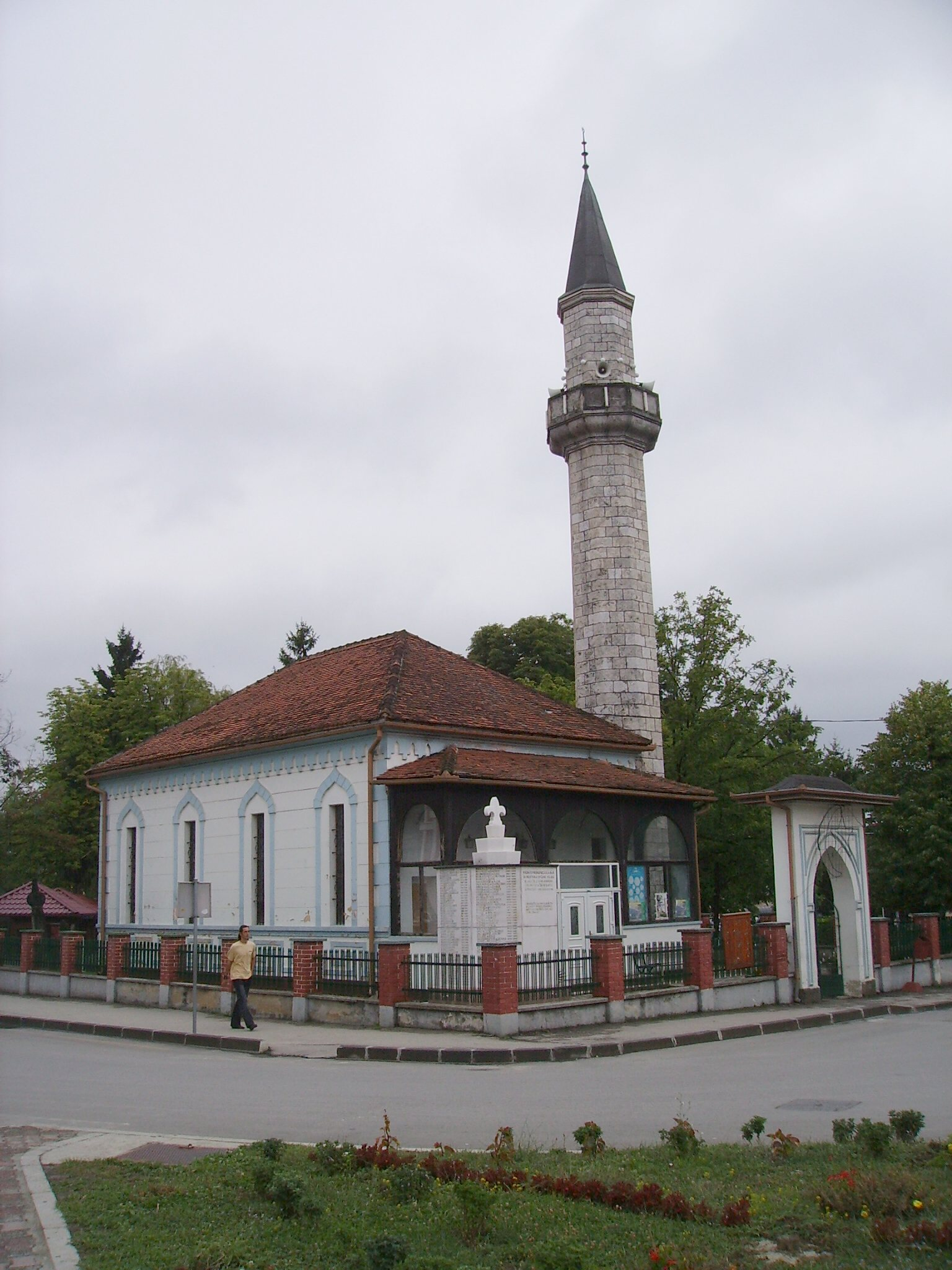 Mosque in the town centre of Velika Kladuša, Bosnia and Herzegovina.